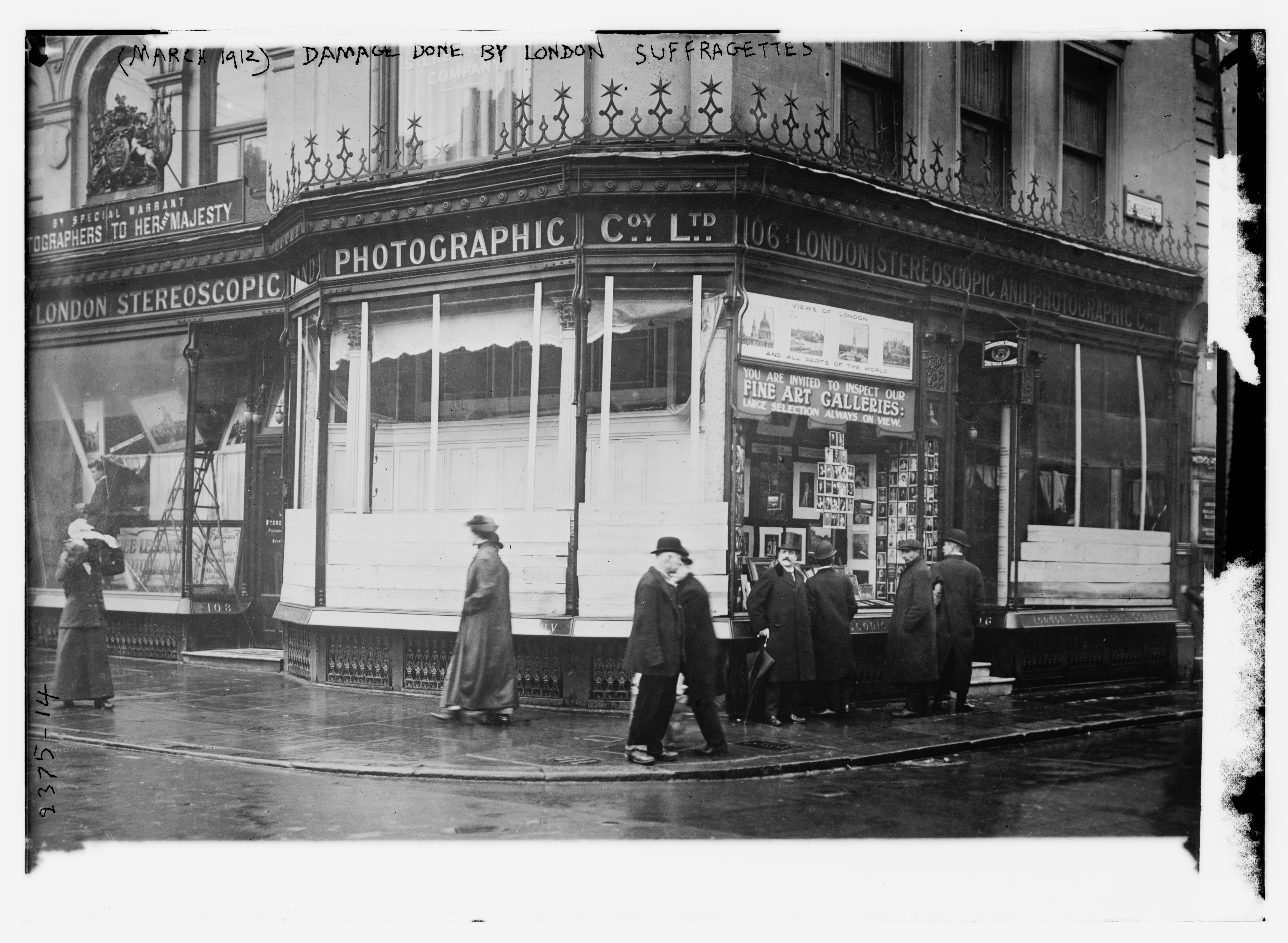 Title: March 1912) Damage done by London Suffragettes Abstract/medium: 1 negative : glass ; 5 x 7 in. or smaller.